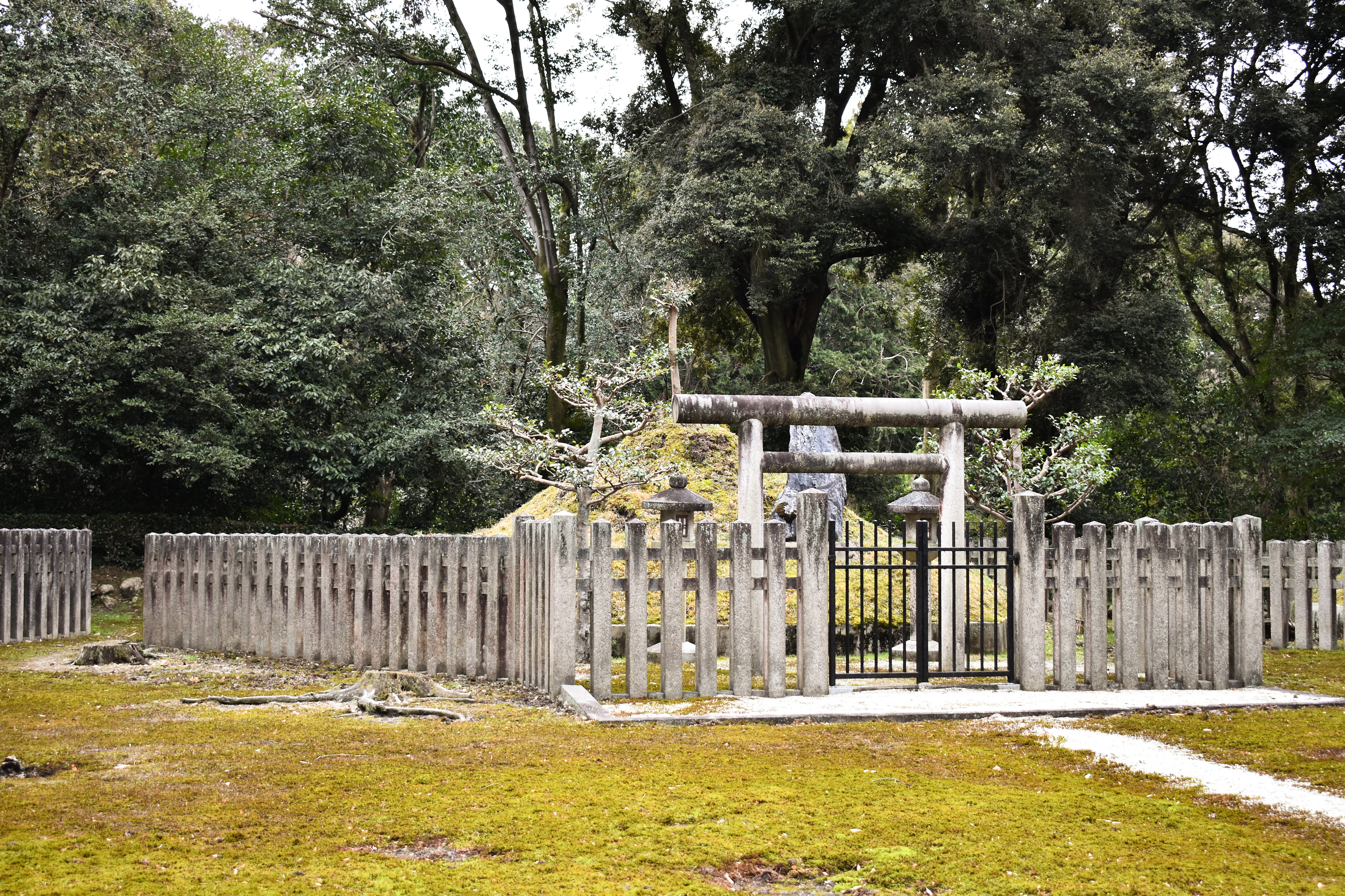 The grave of Imperial Princess Sumiko. Located in Sennyu-ji Temple in Higashiyama Ward, Kyoto City, Kyoto Prefecture.